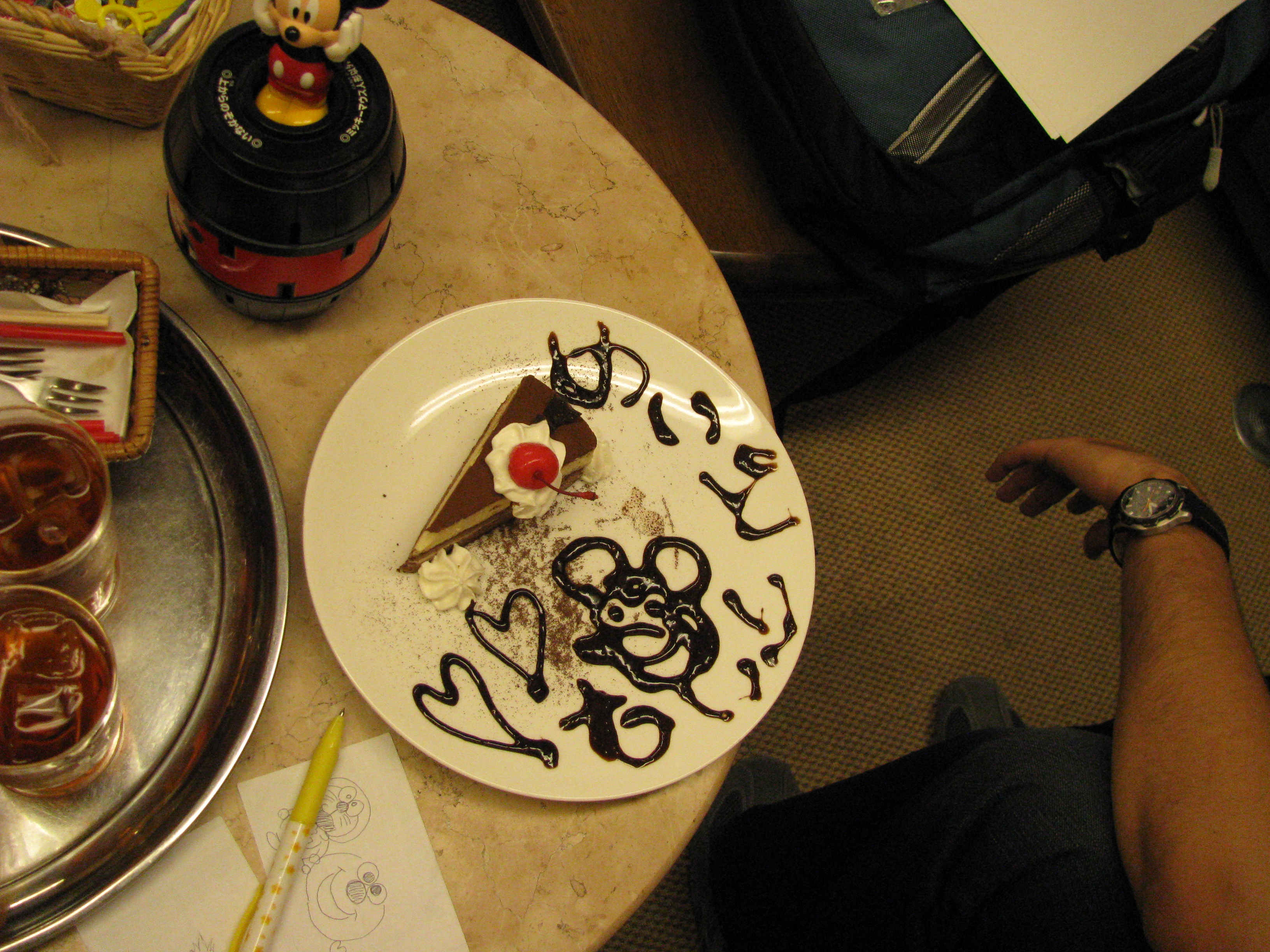 Inside a Maid Cafe in Den-Den Town, Osaka, Japan